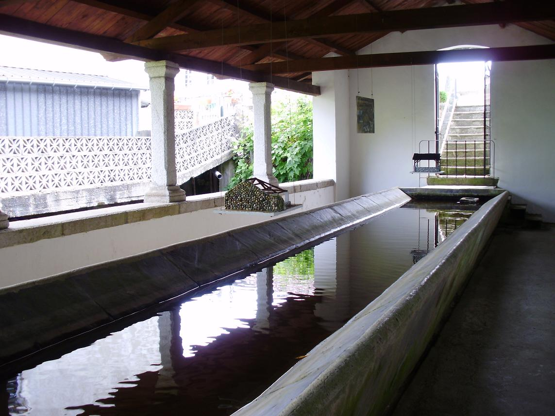 This picture shows the inside of the public washing place built in Boal (Asturias, Spain) in 1928.